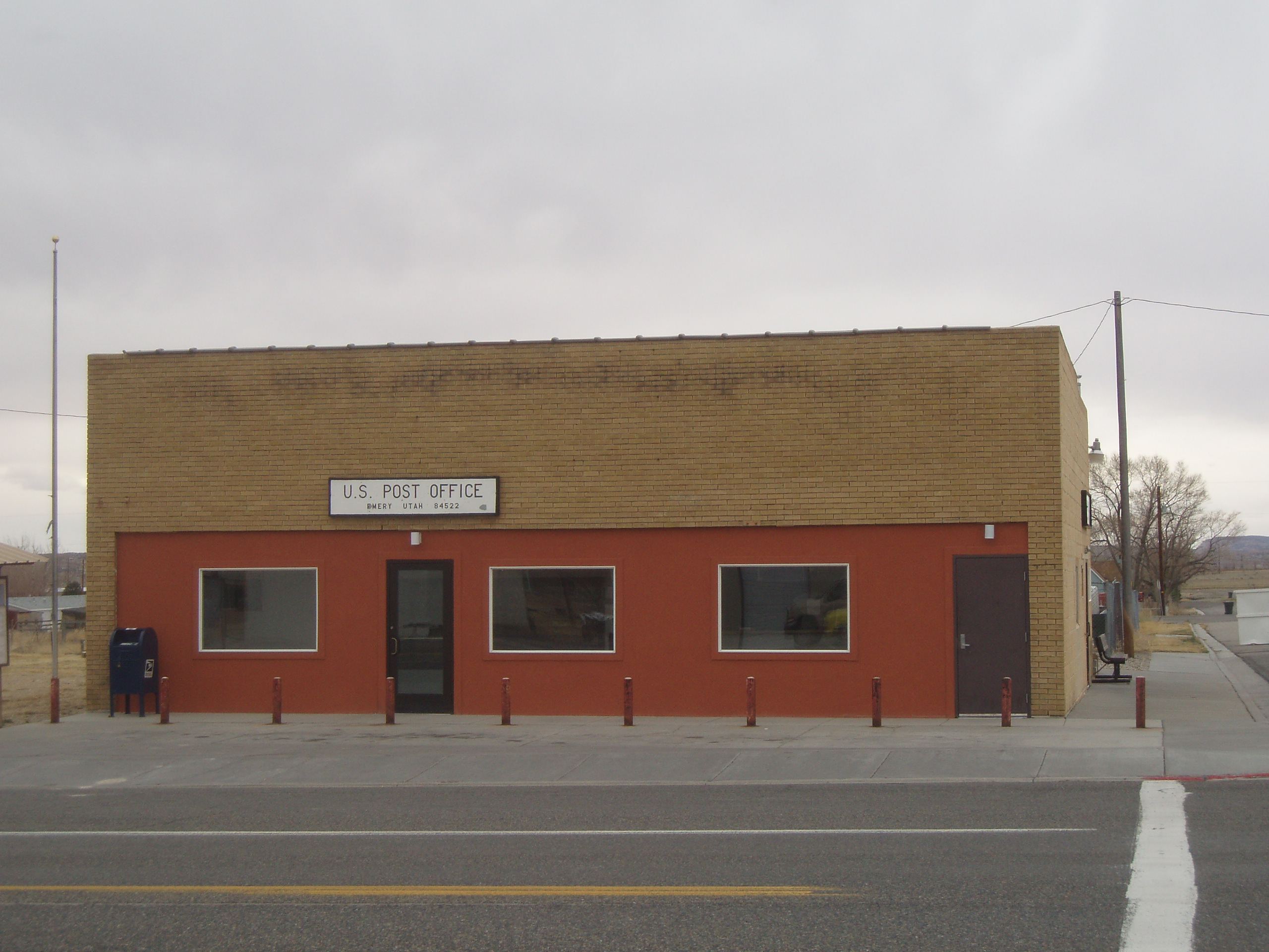 The post office in Emery, Utah, United States